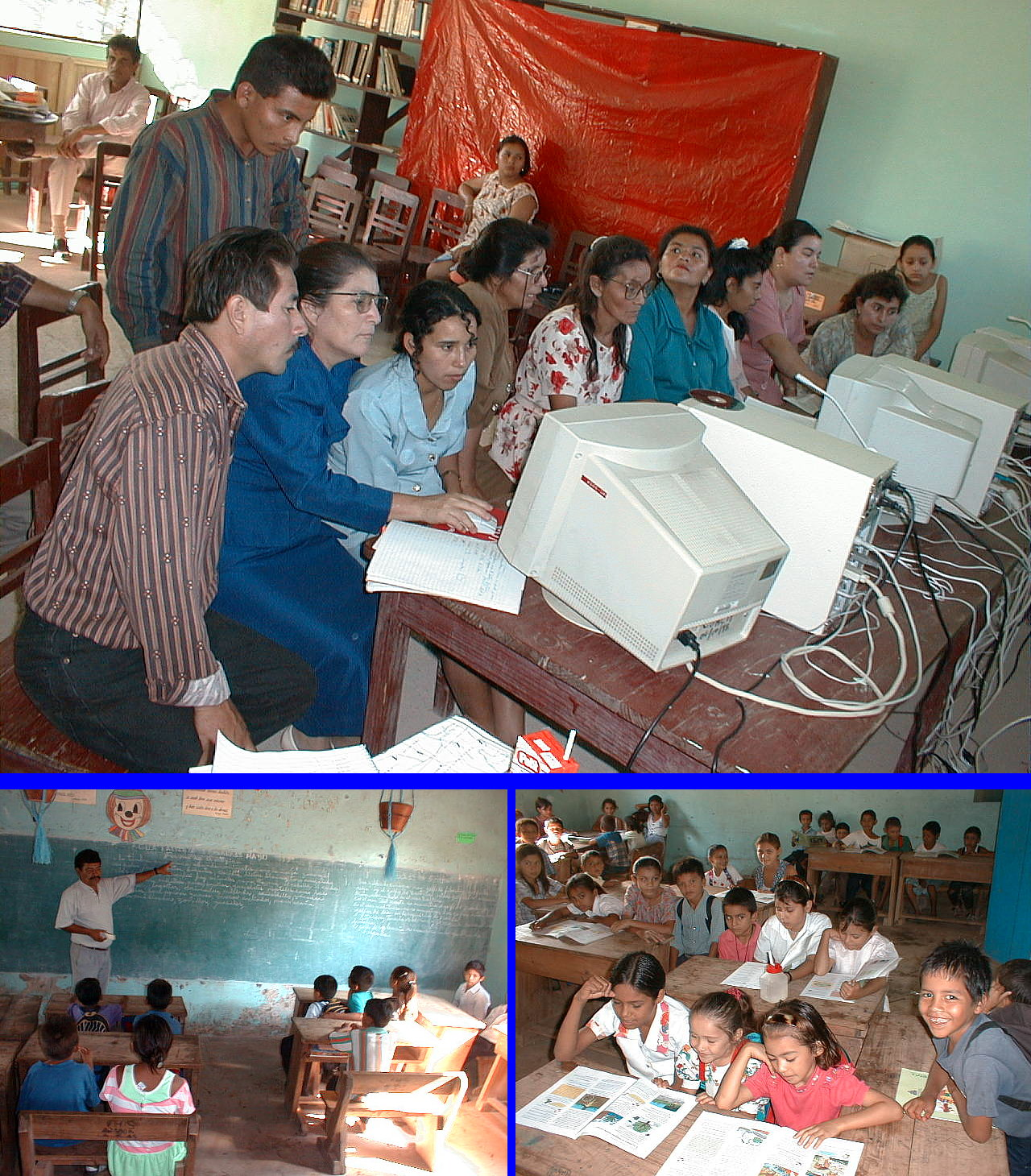 Description: New class rooms and computers for the UNESCO " Village" project. In San Francisco, Lempira dept, & San Ramon, Choluteca dept. In 2000. Credits Camera Info: OLYMPUS SR83 Digital Contact creator at - This image is also available there under the directory link "Composite Group 01" as a multi-layer .xcf file.